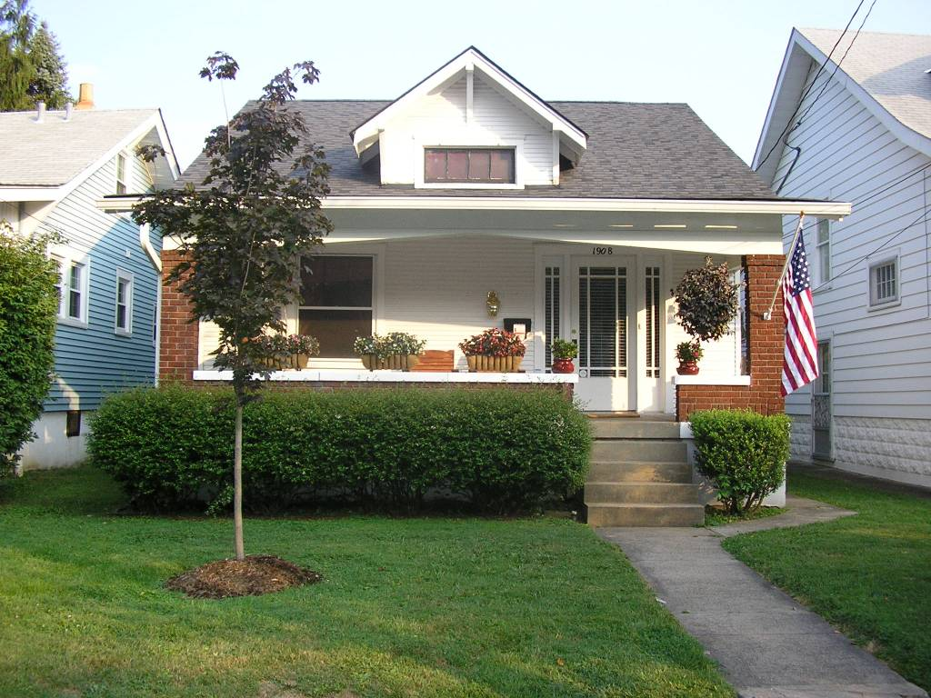 Typical Bungalow in Louisville, Kentucky's Highlands neighborhood.